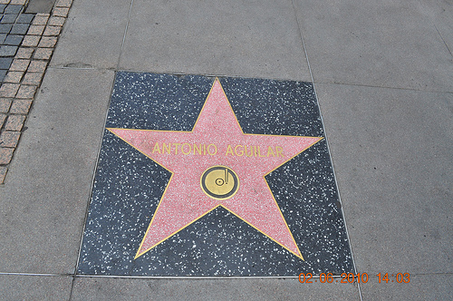 Star of Antonio Aguilar on Hollywood Boulevard, Hollywood